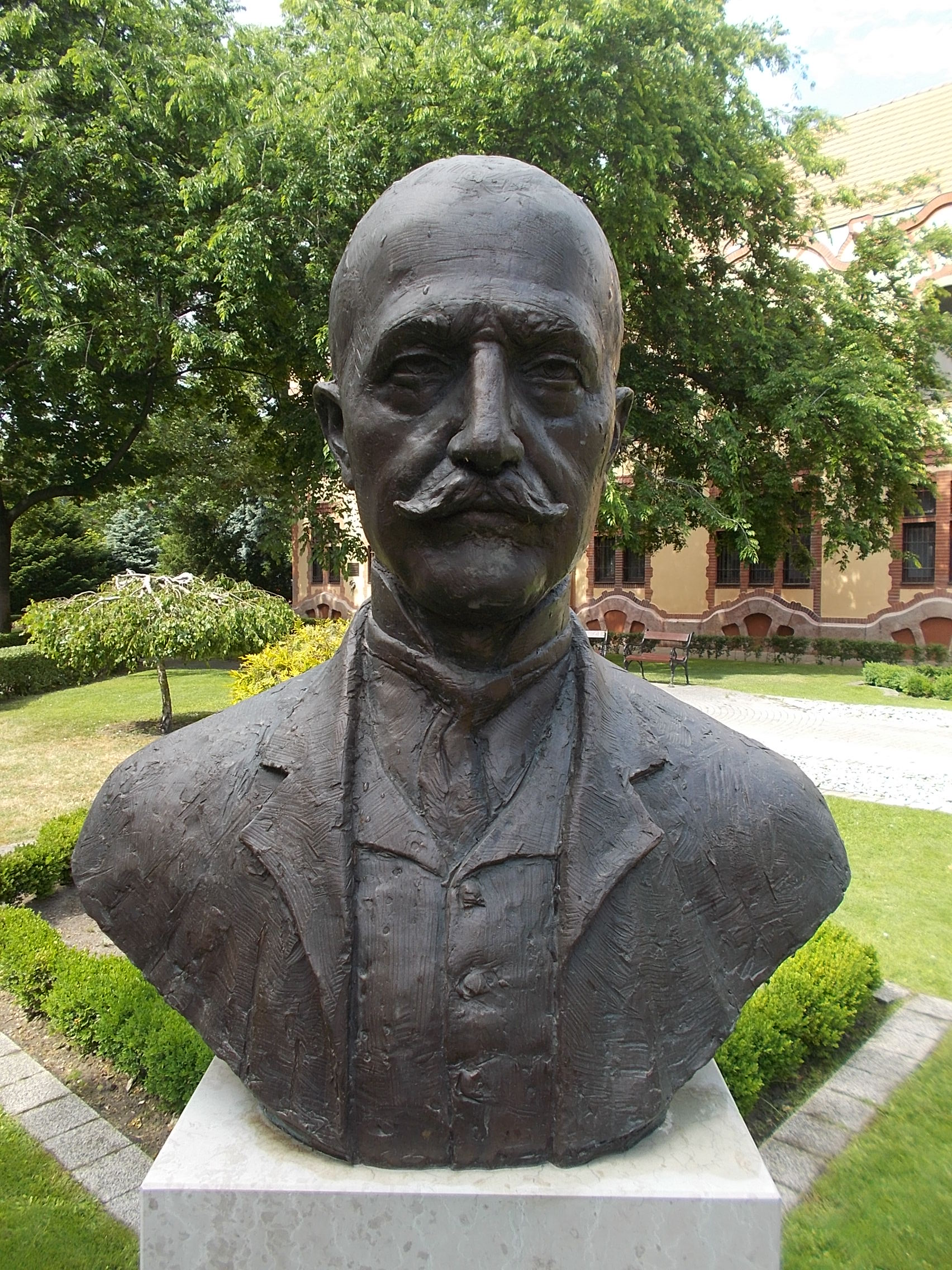 István Győry Nagy by Márk Lelkes (2016 bronze bust on a meter plus high marble base) István Győry Nagy (1866-1961) honorary citizen, chief notary and Deputy mayor of Pesterzsébet - Kossuth Lajos square, 20th district, Budapest.